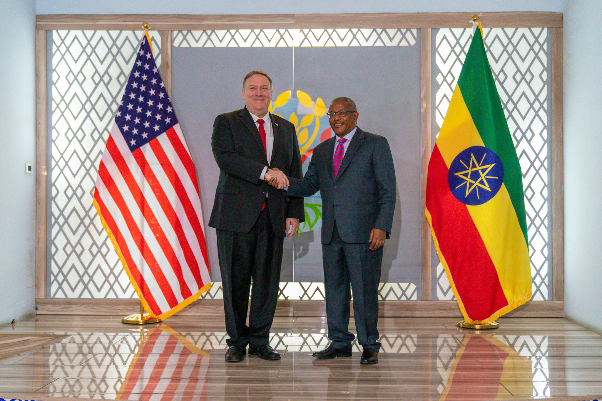 Secretary of State Michael R. Pompeo meets with Ethiopian Foreign Minister Gedu Andargachew in Addis Ababa, Ethiopia, on February 18, 2020. [State Department Photo by Ron Przysucha/ Public Domain]